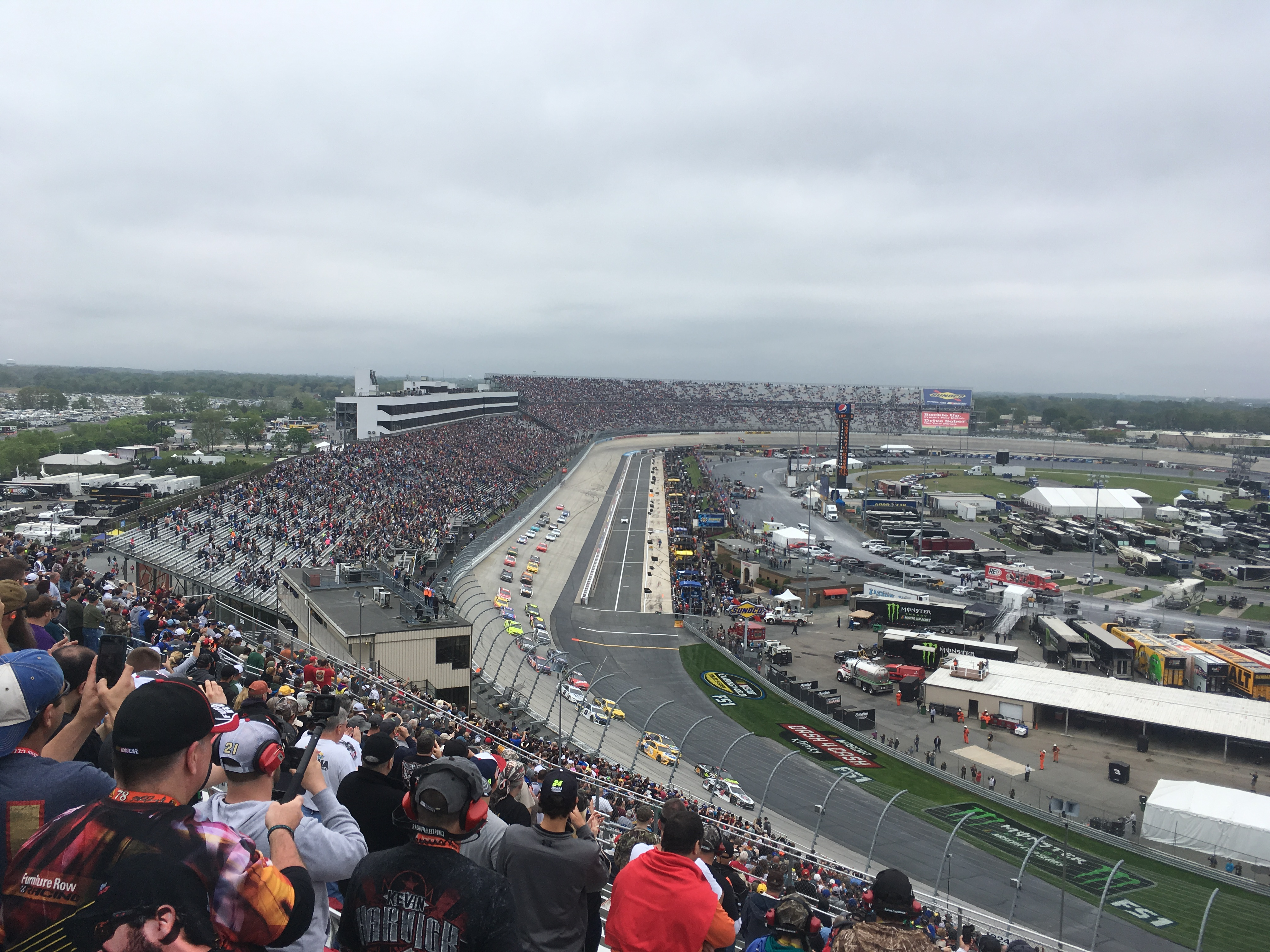 The 2018 AAA 400 Drive for Autism at Dover International Speedway viewed from turn 1, with eventual race winner Kevin Harvick (#4) leading Martin Truex Jr. (#78) and the rest of the field on the first lap.